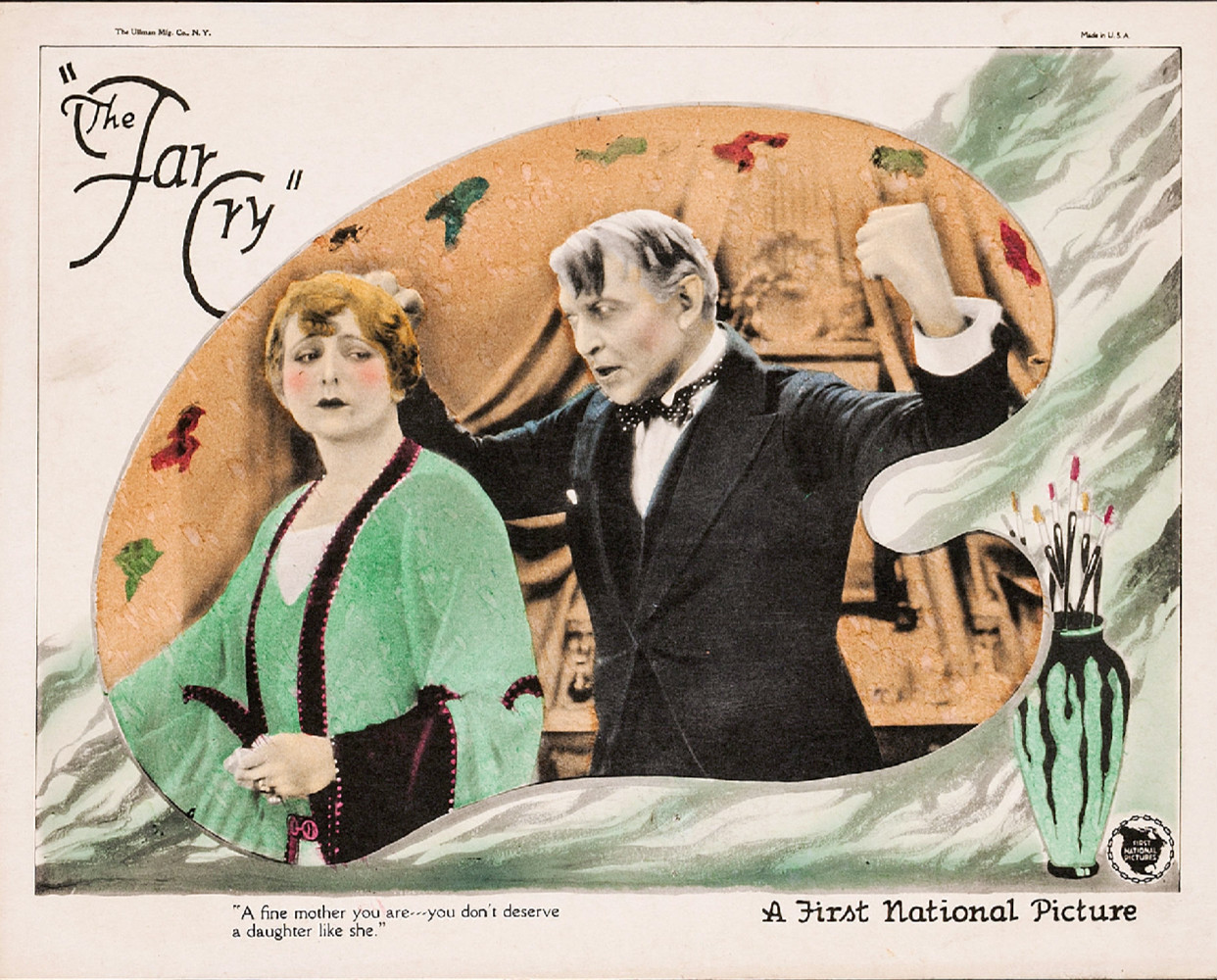 Lobby card for the American drama film The Far Cry (1926). Caption: "A fine mother you are... you don't deserve a daughter like she!" The item has no copyright markings on it as can be seen in the links above. At top left is the Ullman Mfg. Co., NY--they printed the card. At top right is Made in USA.